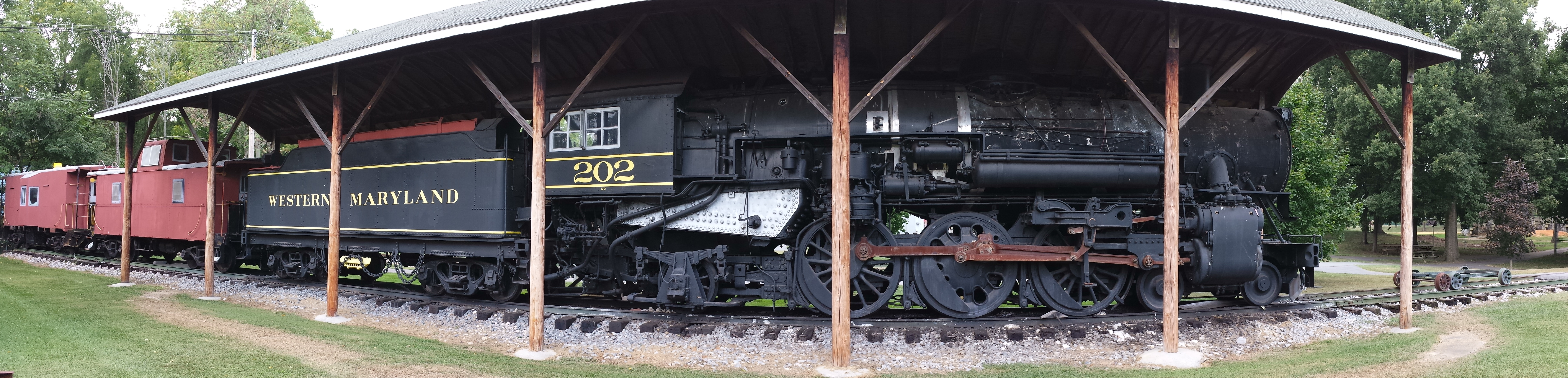 Western Maryland Railway Steam Locomotive No. 202, City Park Hagerstown, MD.